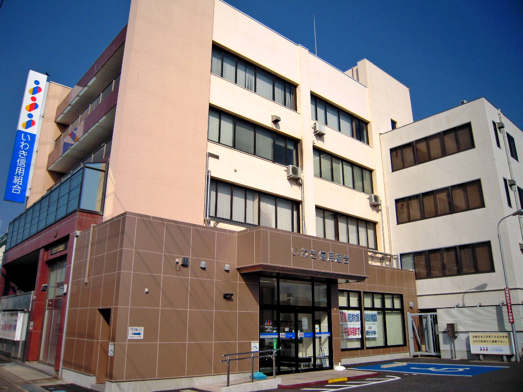 Iwaki Credit Cooperative head store.